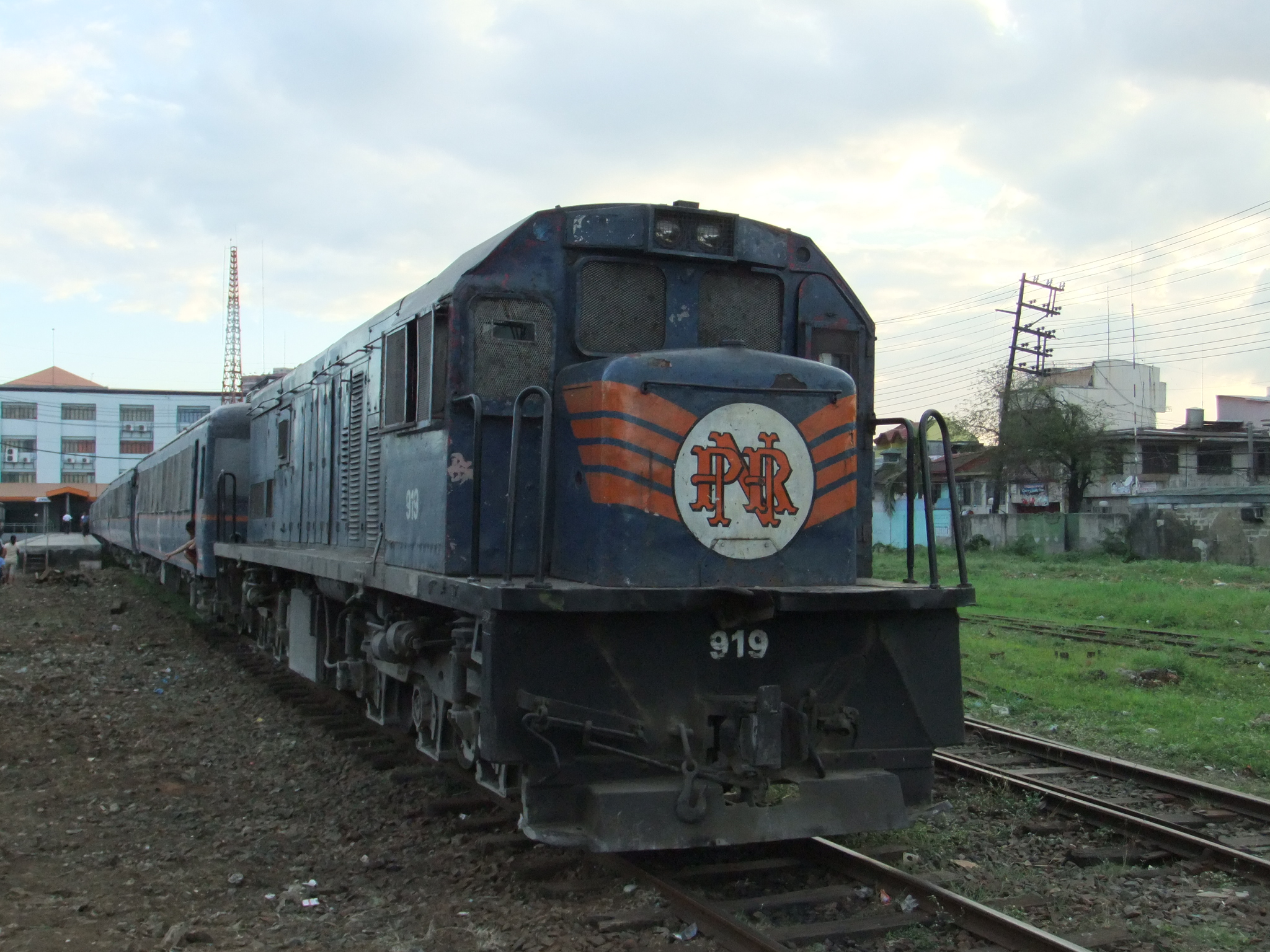 A PNR train, GE locomotives with JR series 12 passenger cars made by Fuji Heavy Industries, at Tutuban Station, Manila.